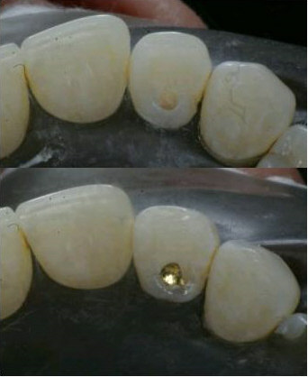 Gold foil, teeth